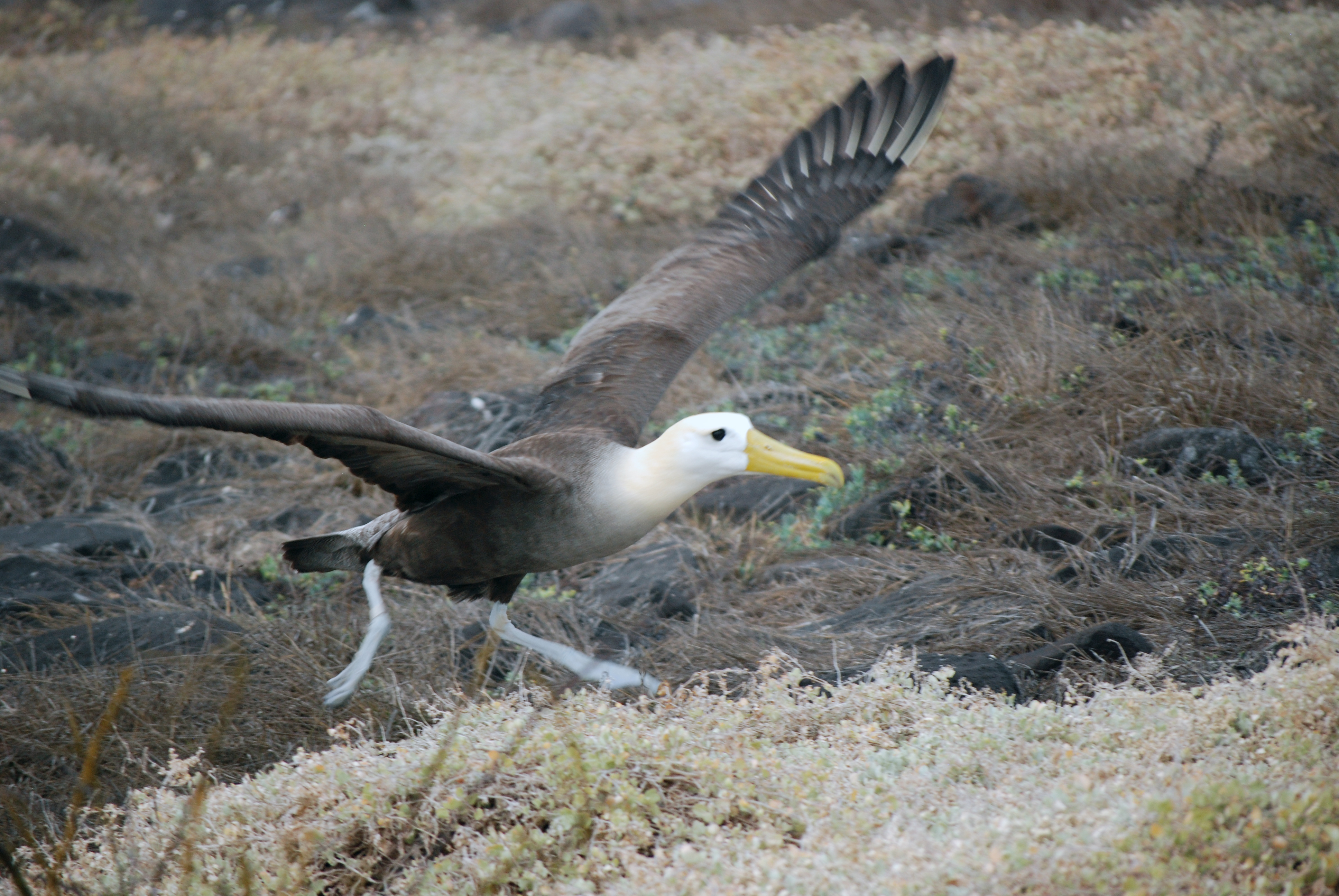 An Waved Albatross about to take off on Española, Galapagos, Ecuador.